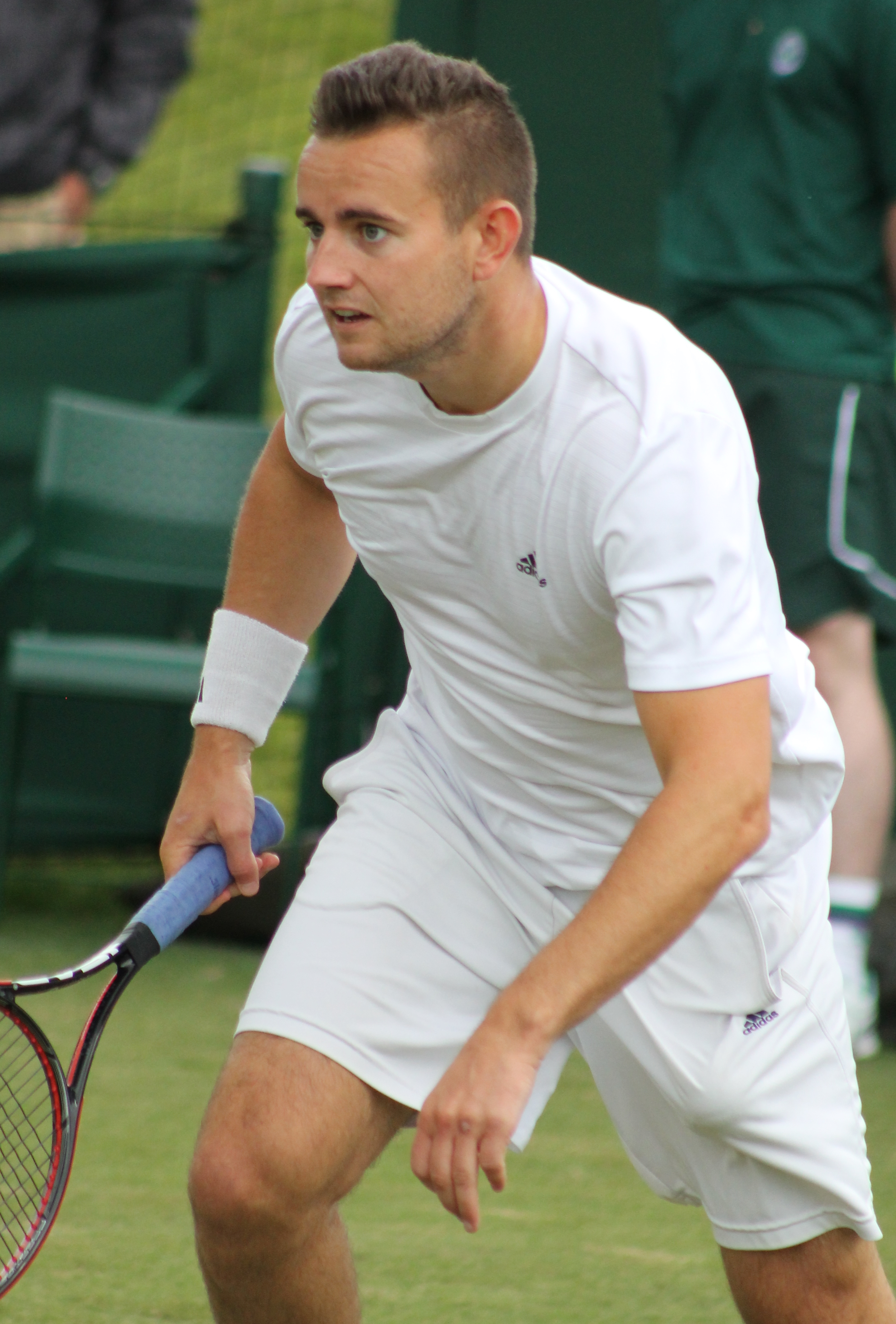 Thornley WMQ14 (3)